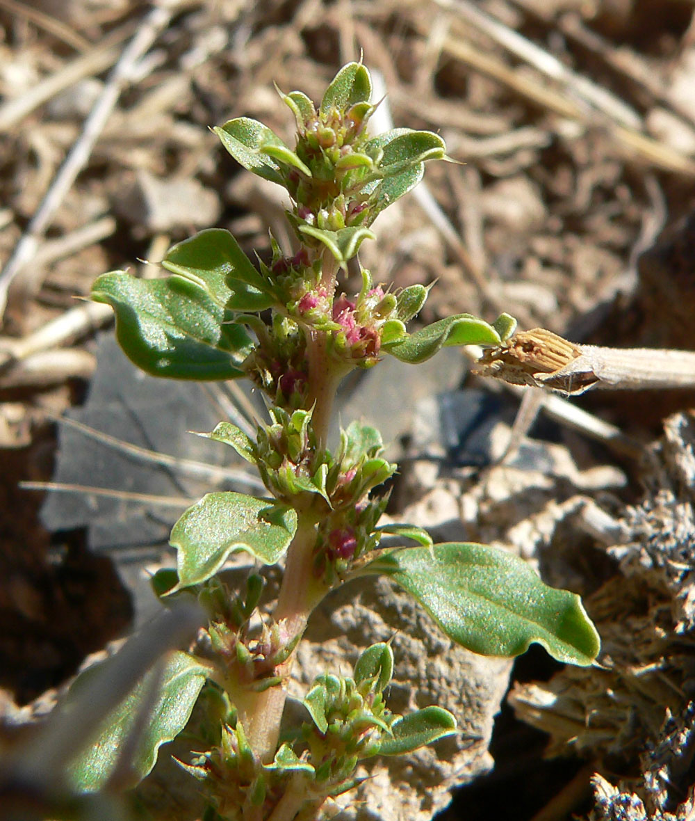 Amaranthus albus in open area east of the Bonanza Camp road, south of the Cold Creek community, Spring Mountains, southern Nevada (elev. about 1950 m); note that plant is normally erect but has been truncated, perhaps by grazers